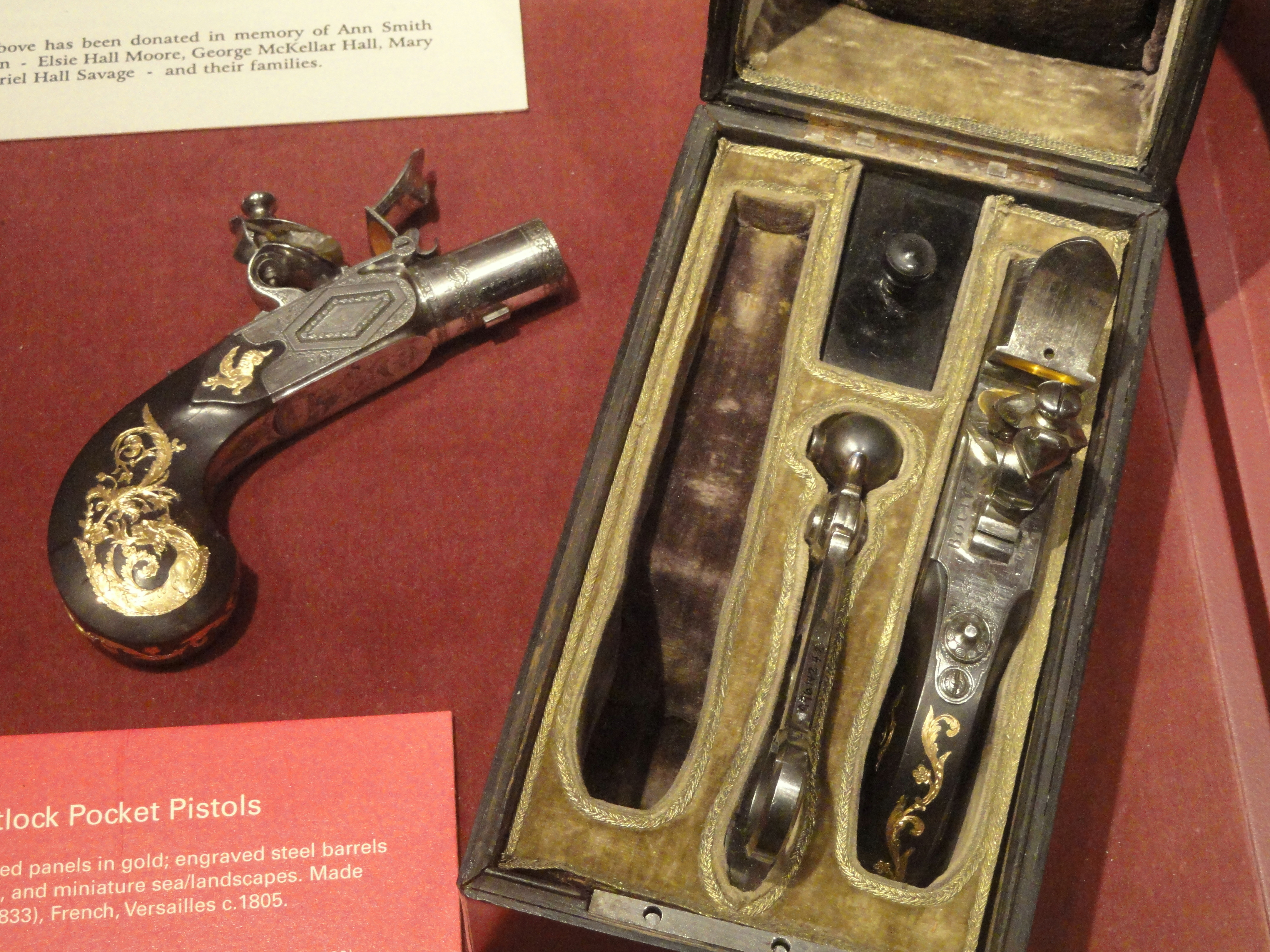 Exhibit in the Royal Ontario Museum, Toronto, Ontario, Canada. This exhibit is old enough so that it is in the public domain, and photography was permitted in the museum. I took this photograph and release it into the public domain.